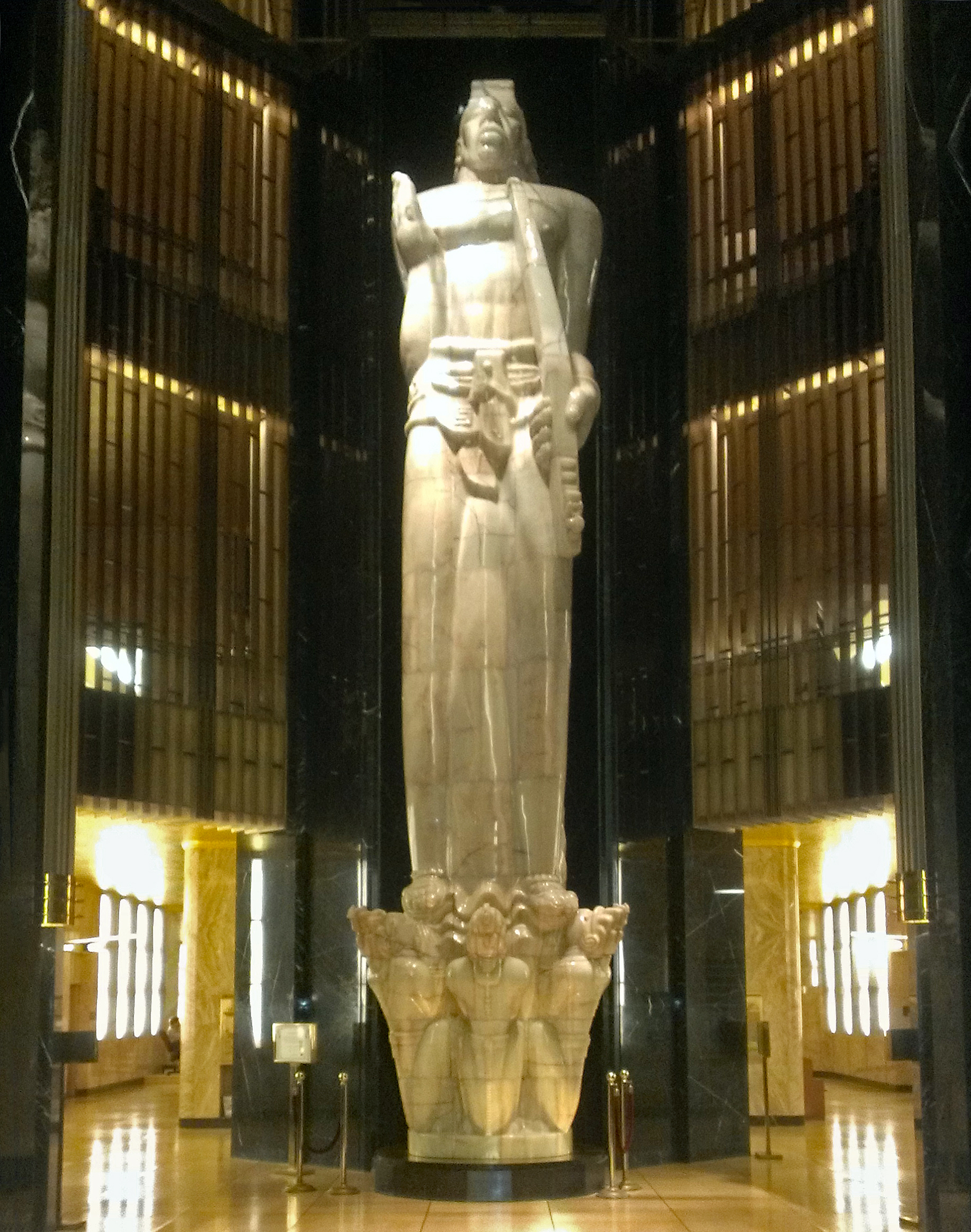 Vision of Peace sculpture by Carl Milles, Saint Paul City Hall & Ramsey County Courthouse, 15 Kellogg Blvd W, Saint Paul, Minnesota, USA.